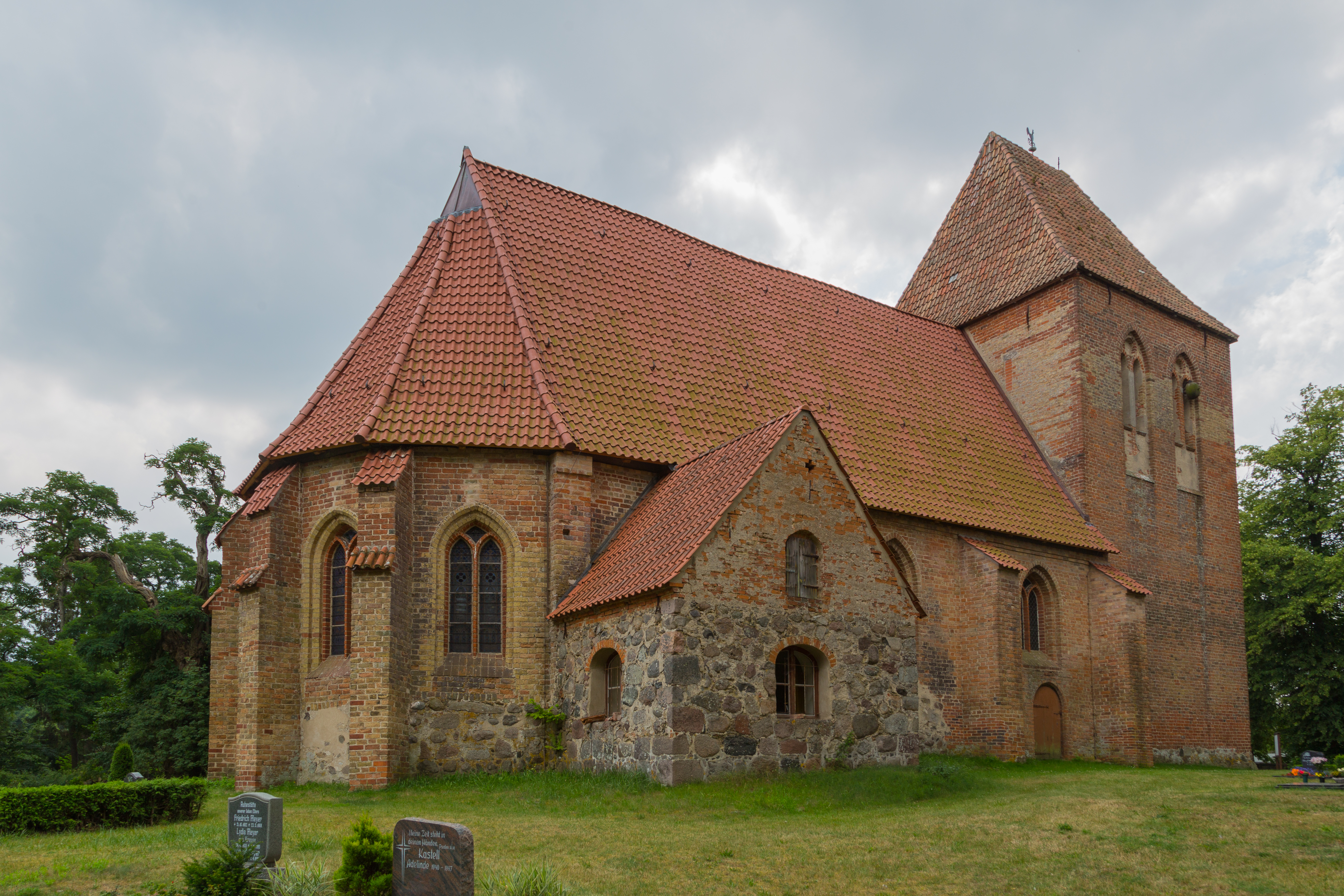 The Lutheran Village Church (Dorfkirche) of Alt Karin, district of Carinerland, Landkreis Rostock, Mecklenburg-Vorpommern, Germany. The church is a listed cultural heritage monument.